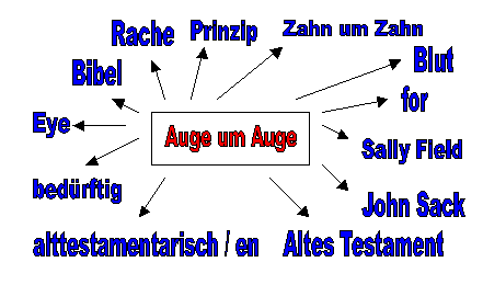 Linguistic statistic about the German sentence "Auge um Auge"